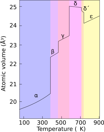 Phase diagram for plutonium at ambient pressure. The vertical axis is the average atomic volume, in cubic angstroms.